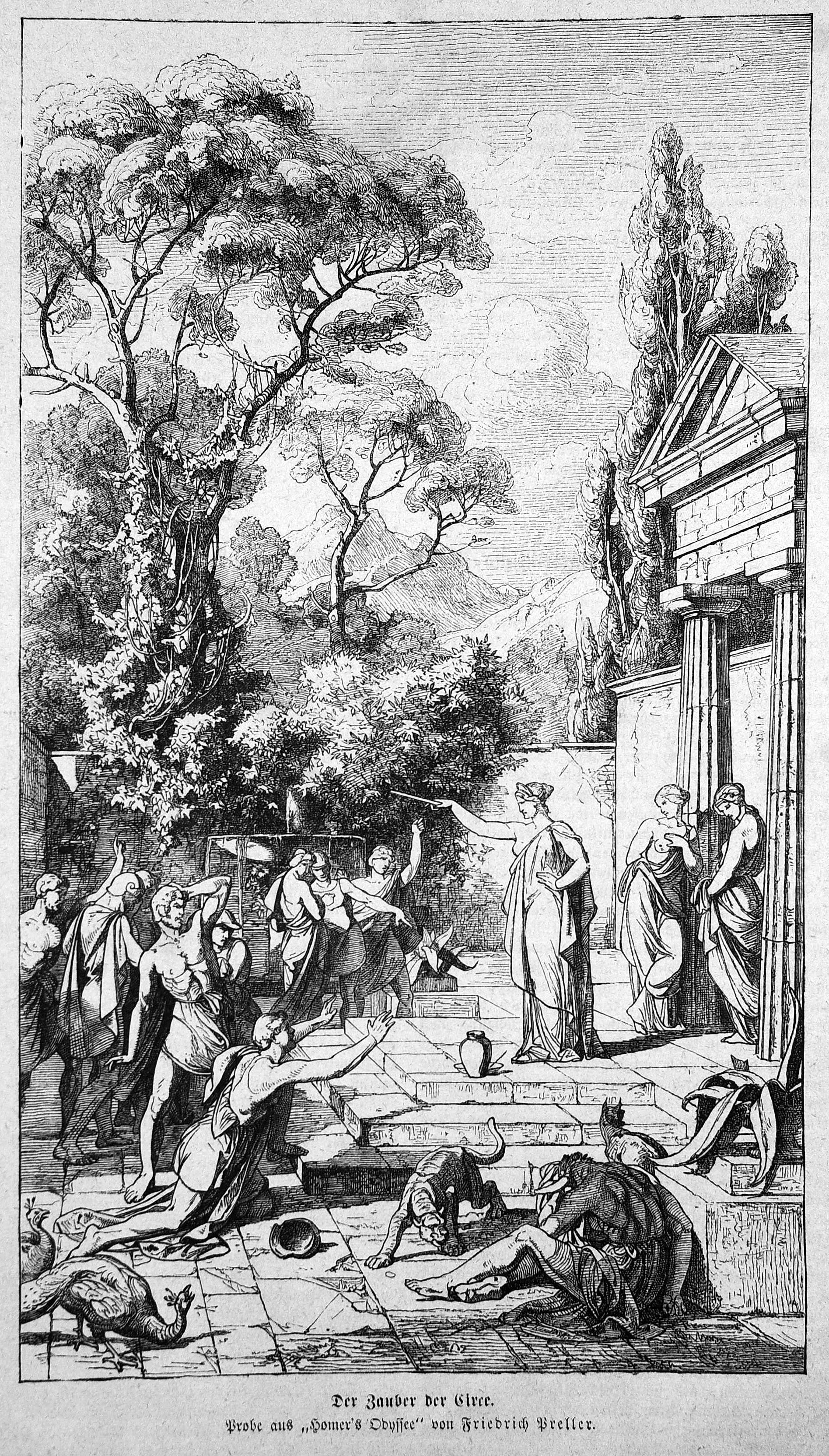 caption: "Der Zauber der Circe. Probe aus „Homer’s Odyssee“ von Friedrich Preller."